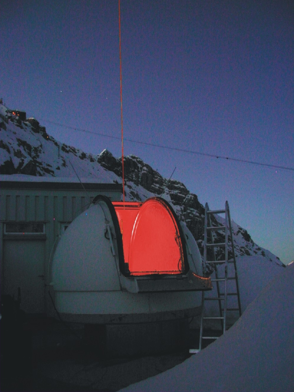 Water vapour LIDAR at the Zugspitze, Bavaria, Germany Author: Hannes Vogelmann